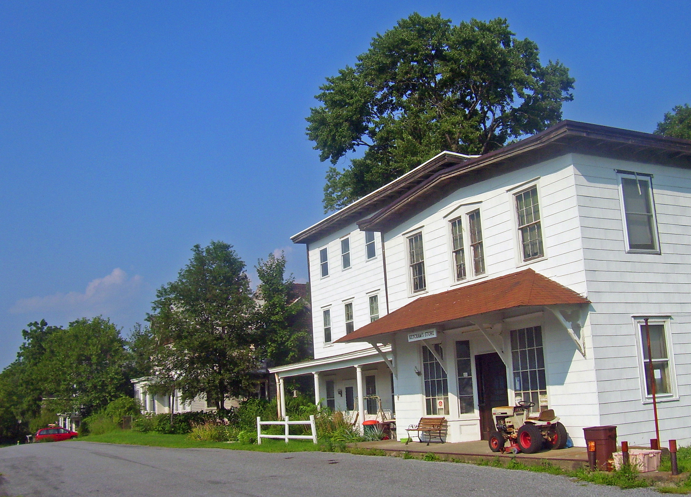 Downtown Mountainville, NY, USA (street visible from New York State Thruway nearby.